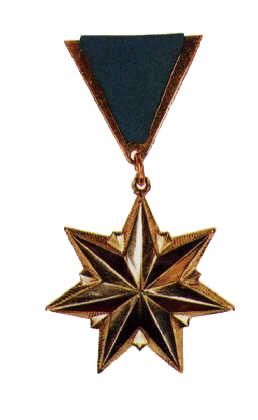 Sign "Gold star" ("Fknsy Жулдыз ") to a rank "National hero". A sign on an old sample.